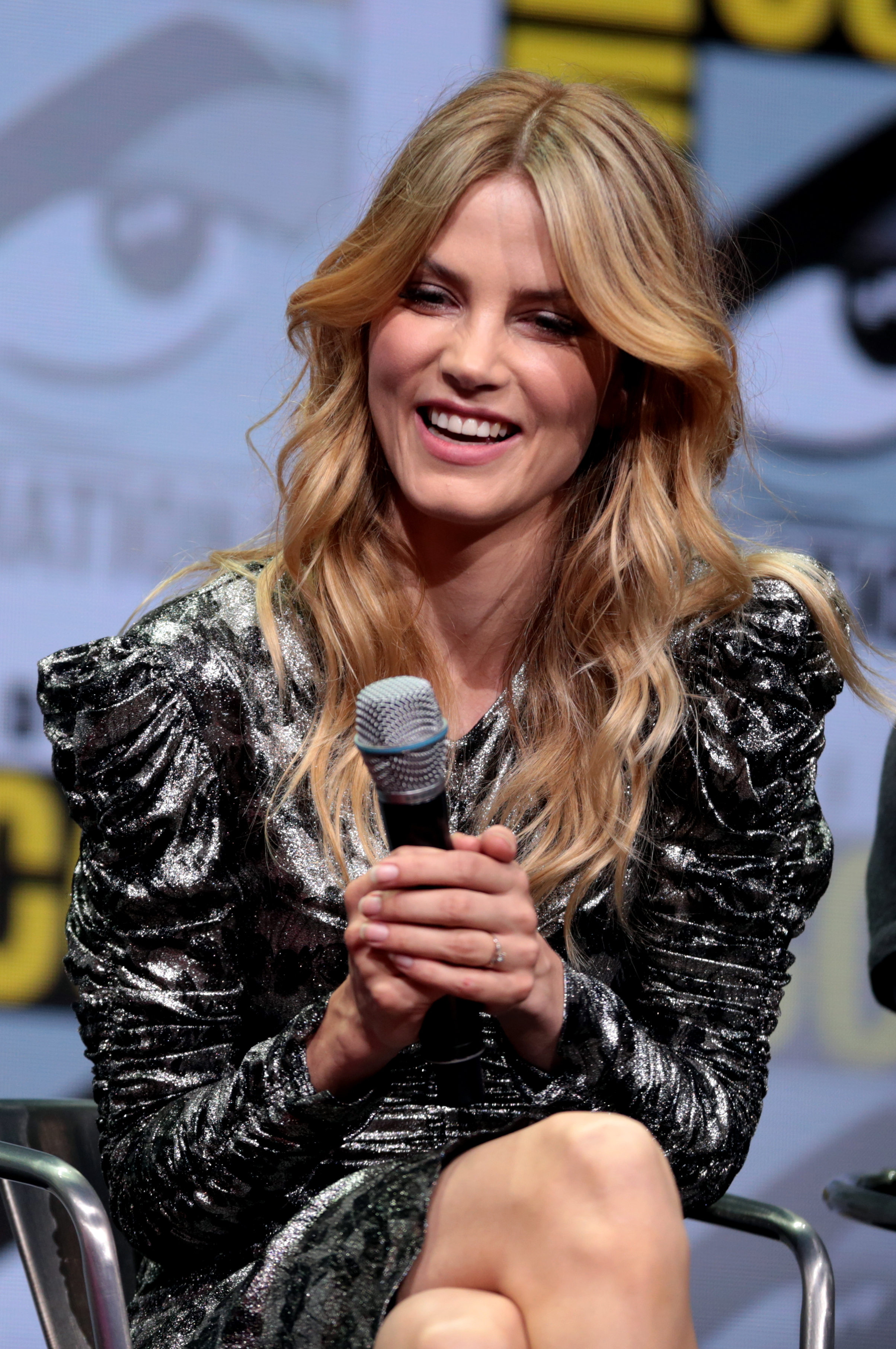 Sylvia Hoeks speaking at the 2017 San Diego Comic-Con International in San Diego, California.